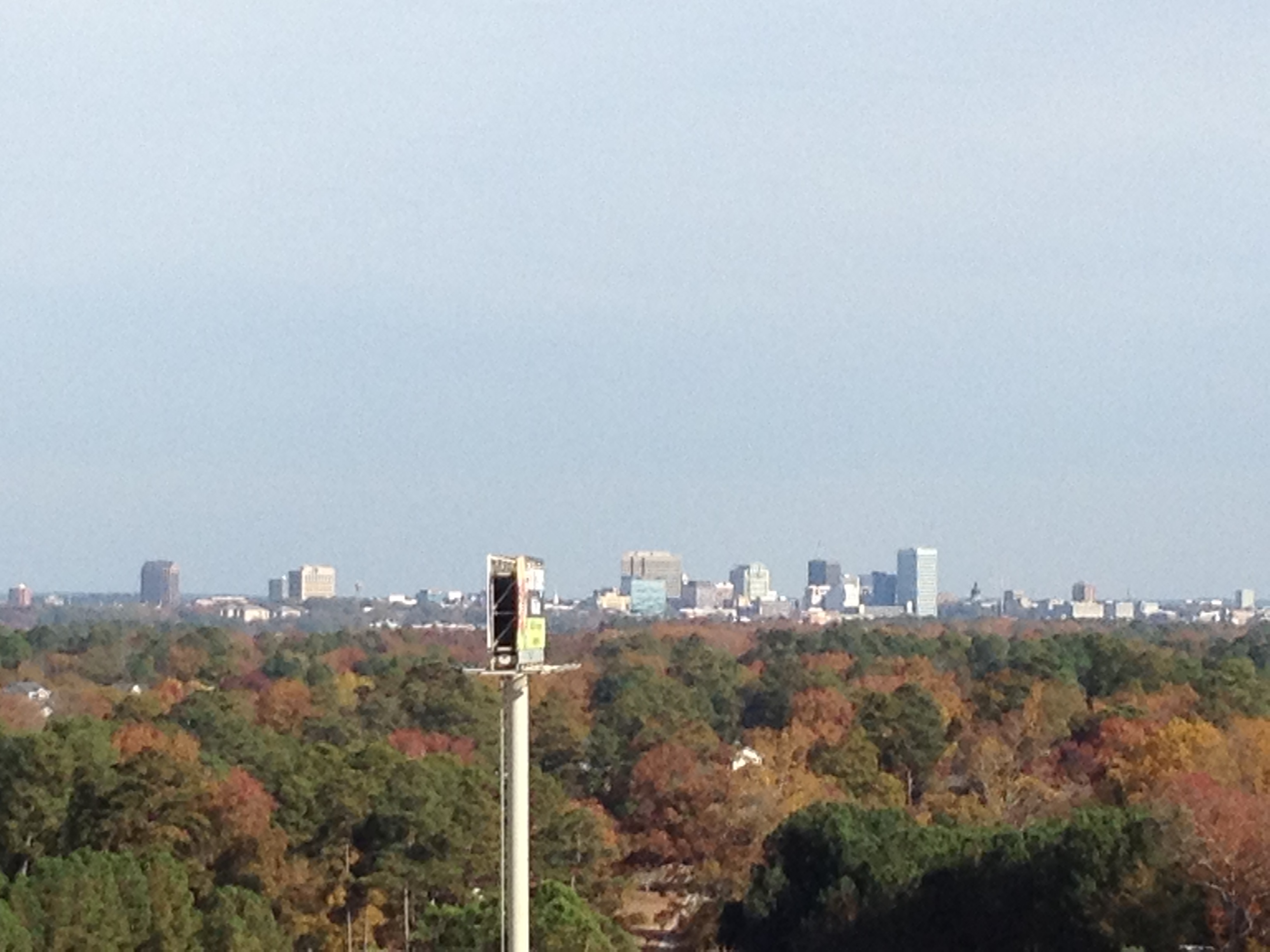 A view of Columbia, SC from Lexington, SC.